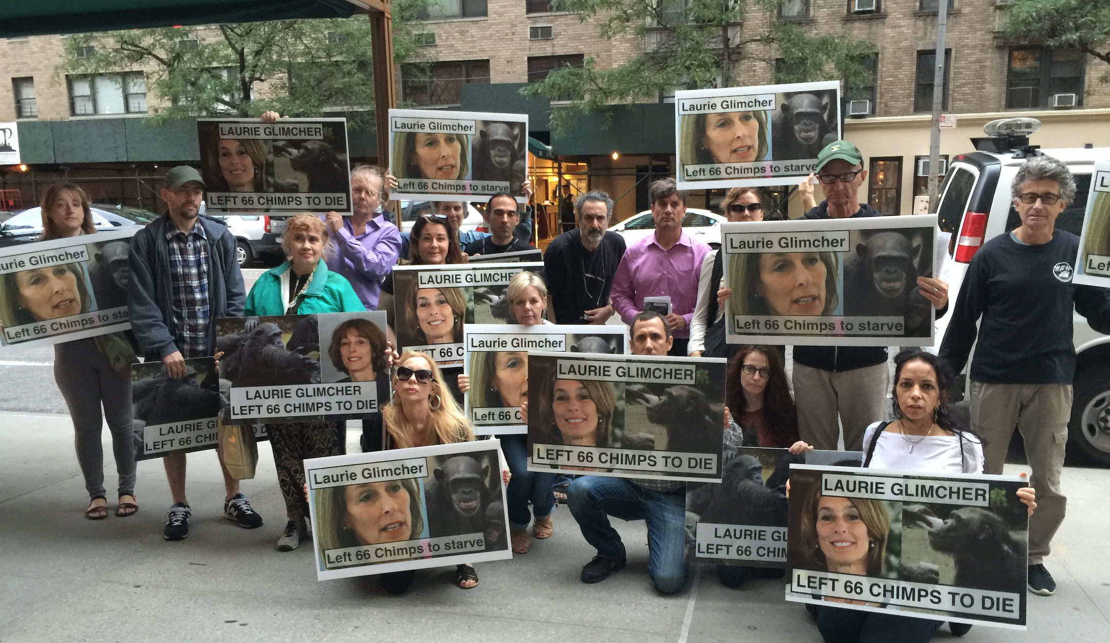 Angered by the New York Blood Center's decision to abandon 66 chimpanzees previously used for research, animal rights activists protest outside Dr. Glimcher's home.